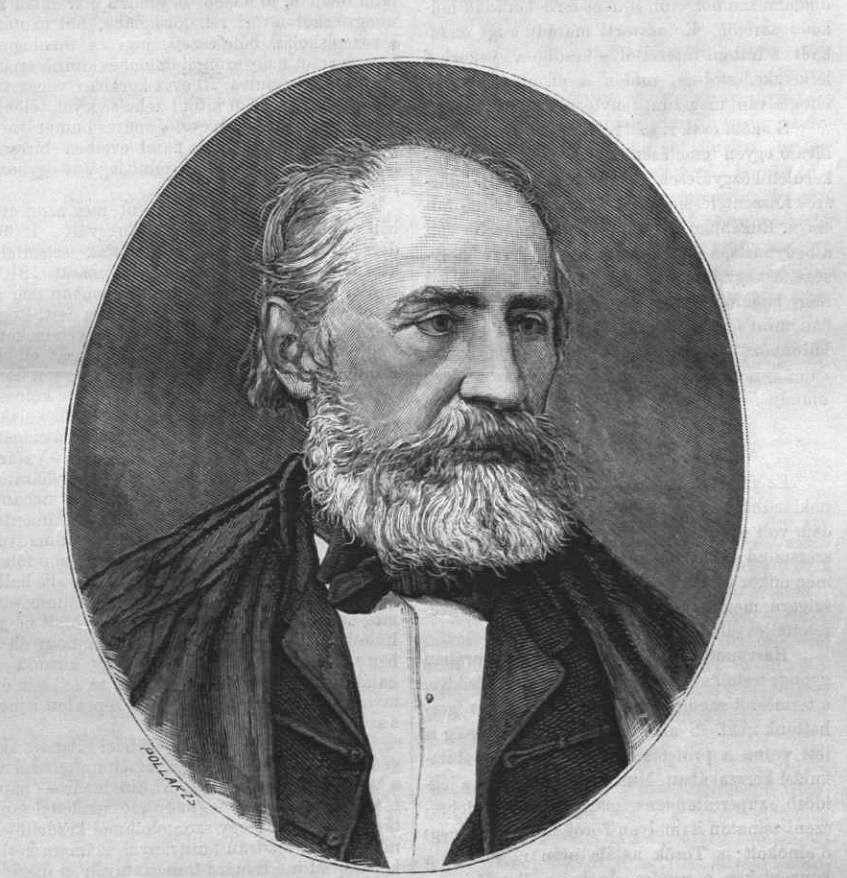 Péter Nagy bishop